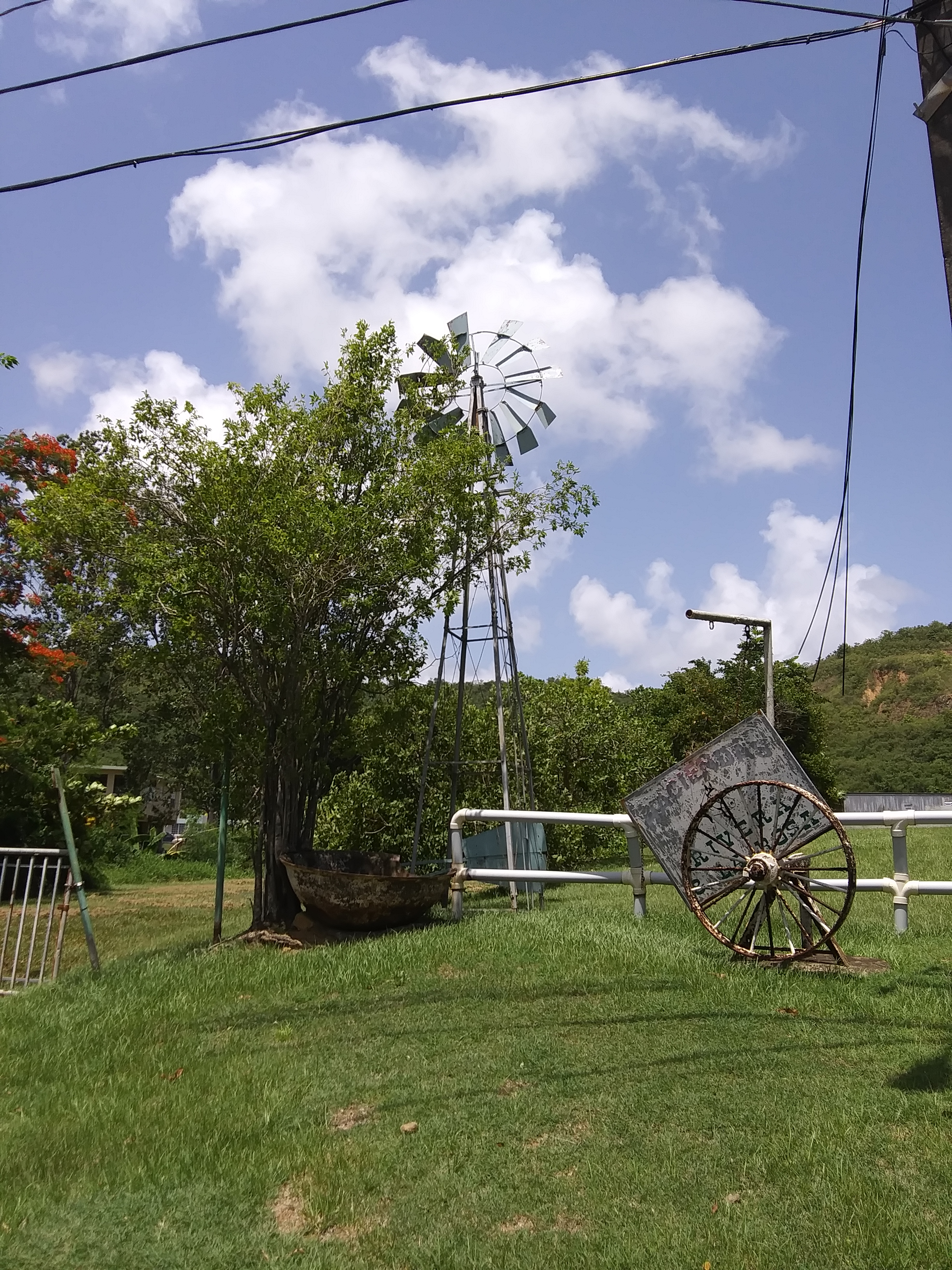 Windmill in Quebrada, Fajardo, Puerto Rico